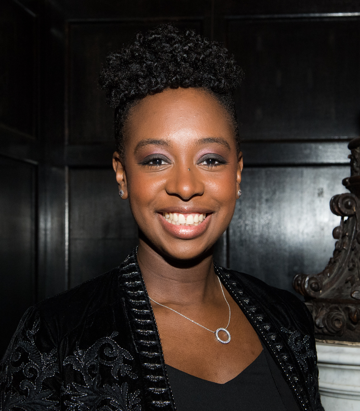 Portrait shot of Yolanda